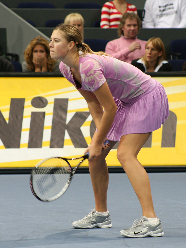 Maria Sharapova am Zurich Open 2006